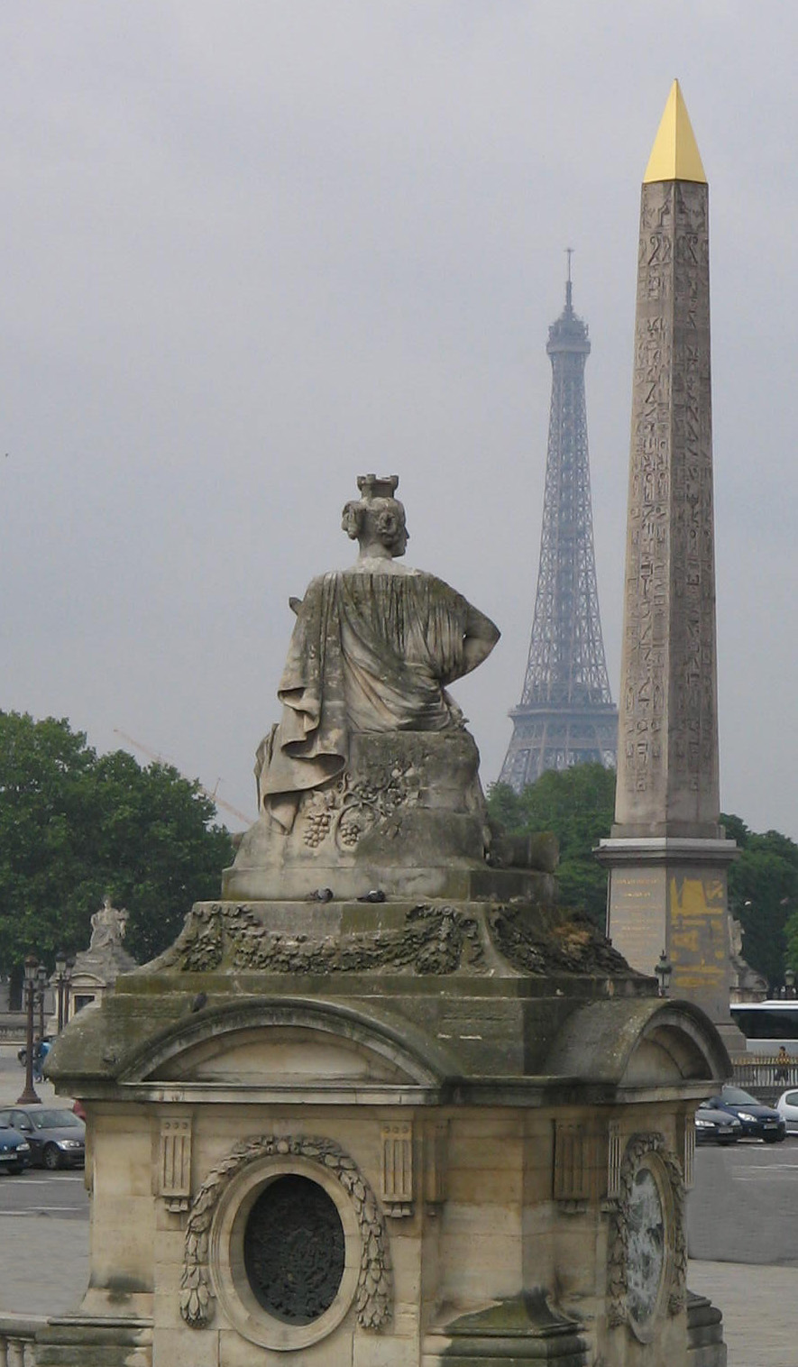 A statue and the obelisk on the Place de la Concorde, Paris, with the Eiffel Tower in the background.